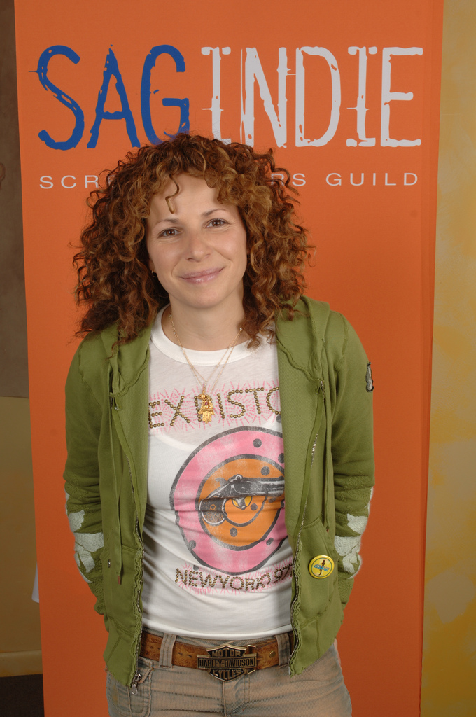 Meredith Scott Lynn at the Sundance Film Festival